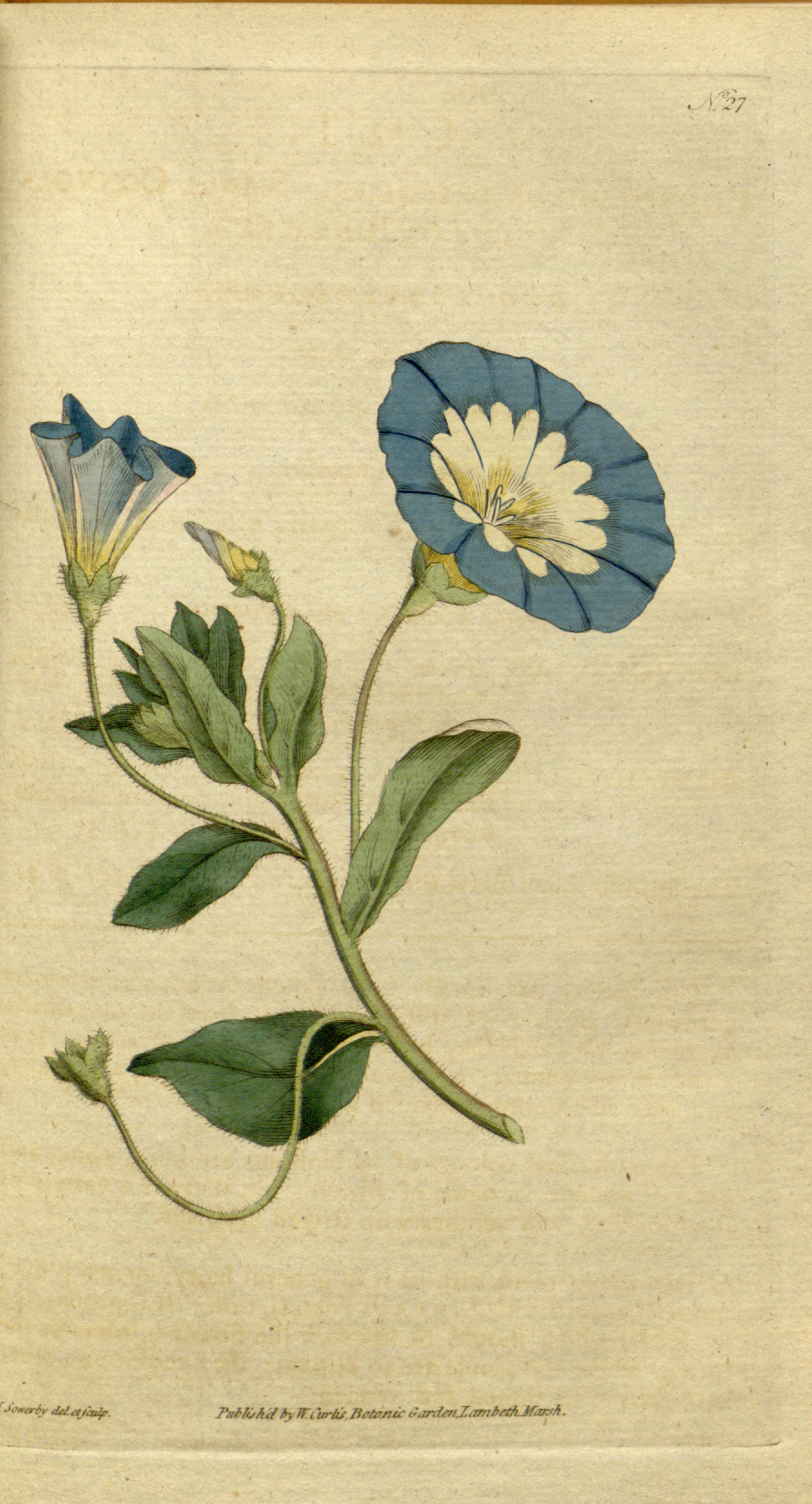 This is Plate 27 from The Botanical Magazine, Volume 1. Convolutus tricolor